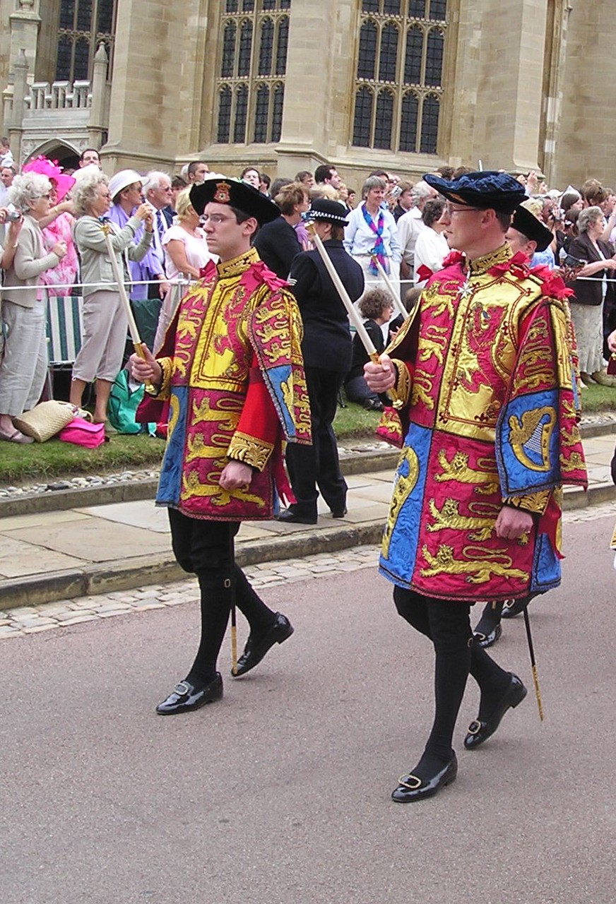 Pursuivants in procession to St George's Chapel, Windsor Castle for the annual service of the Order of the Garter: Peter O'Donoghue, Bluemantle Pursuivant of Arms in Ordinary (left), Alastair Bruce of Crionaich, Fitzalan Pursuivant of Arms Extraordinary (right)